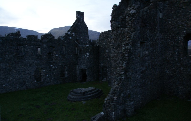 Courtyard of Kilchurn Castle, Scotland